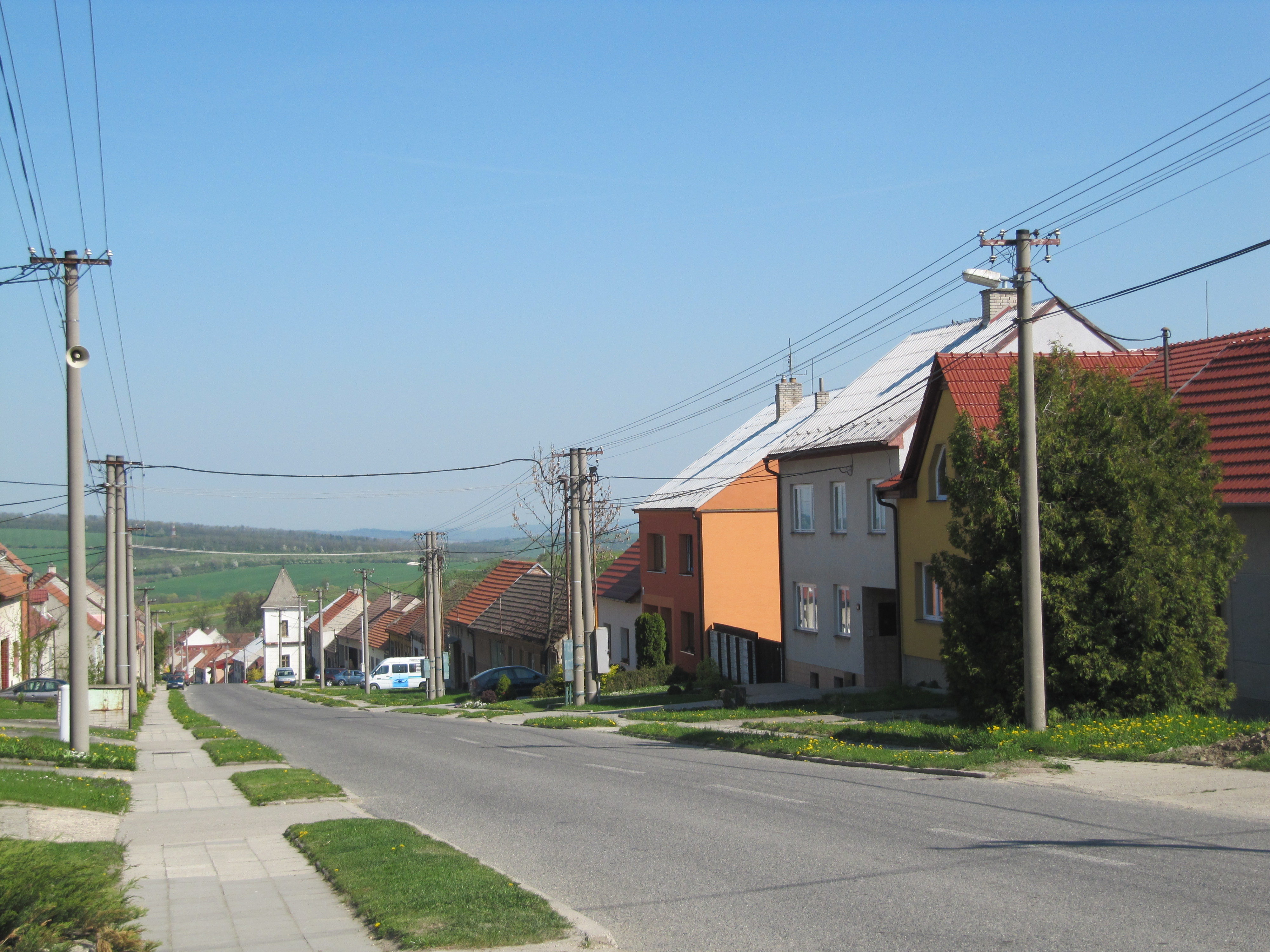 Suchov in Hodonín District, Czech Republic. Common.